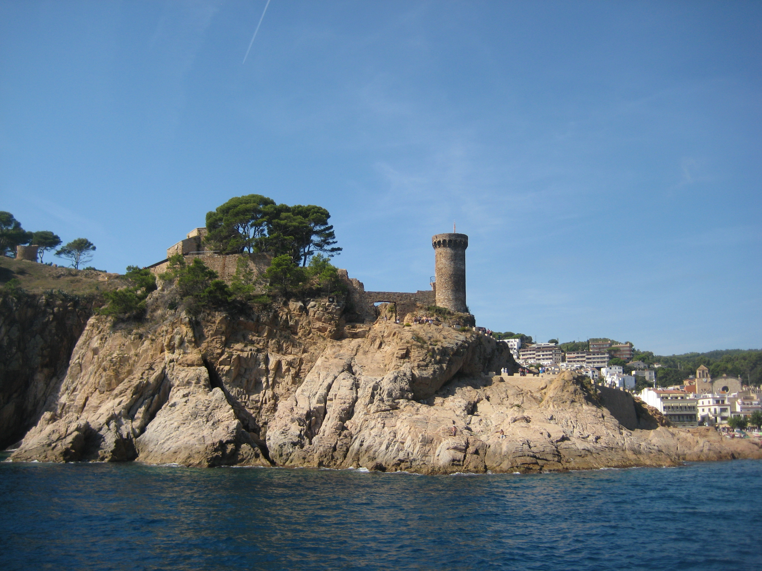 Tossa de Mar castle sea view